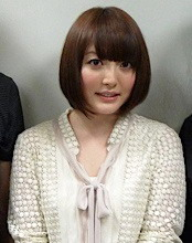 A cropped version of the previously uploaded photo of Kana Hanazawa uploaded by Deerstop.